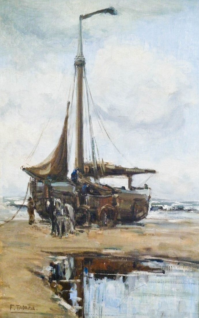 Ship on shore